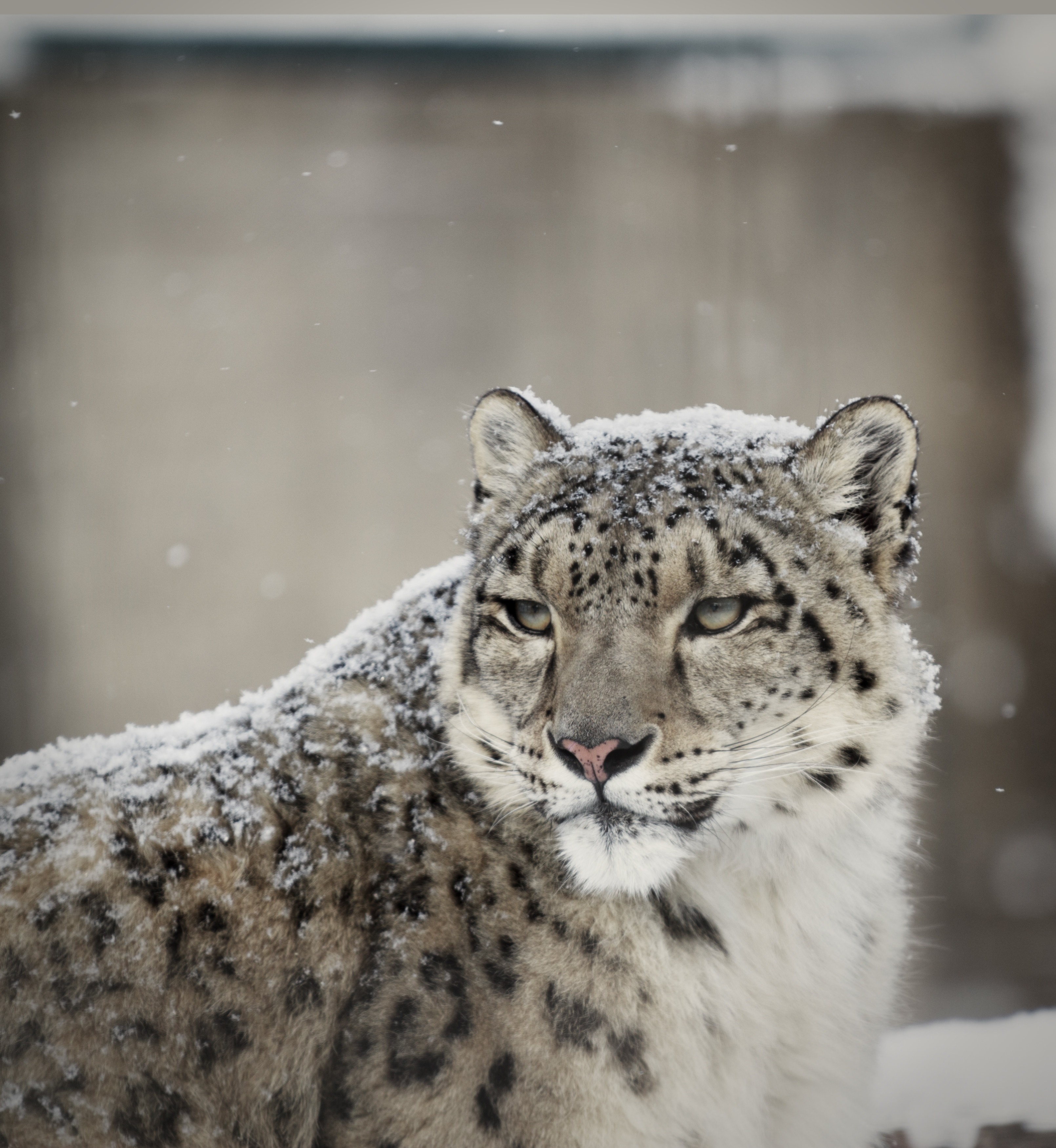 Snow leopard in snow